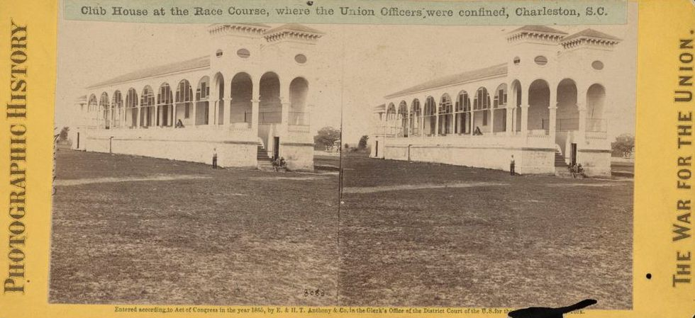 The stands for the Washington Race Track were designed by Charles F. Reichardt in the 1830s.